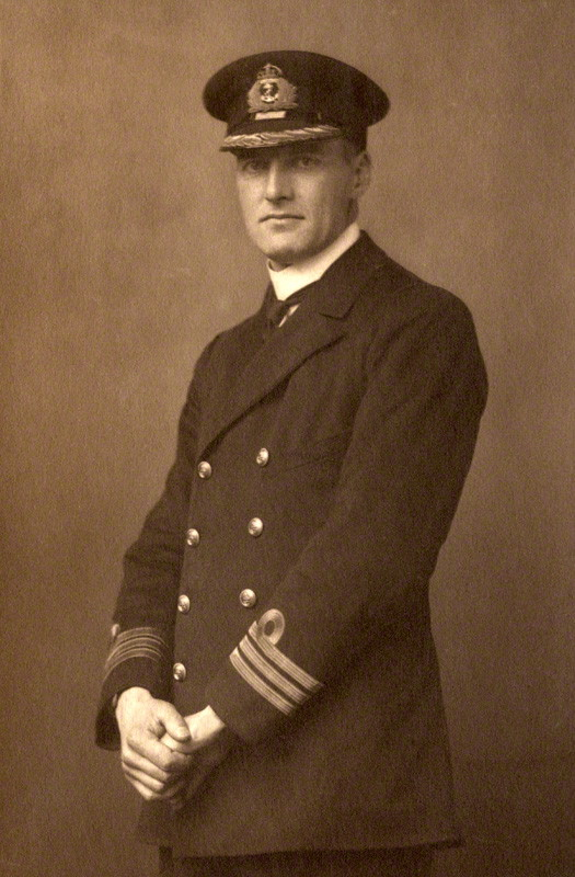 by George Charles Beresford, vintage print, 1 May 1918